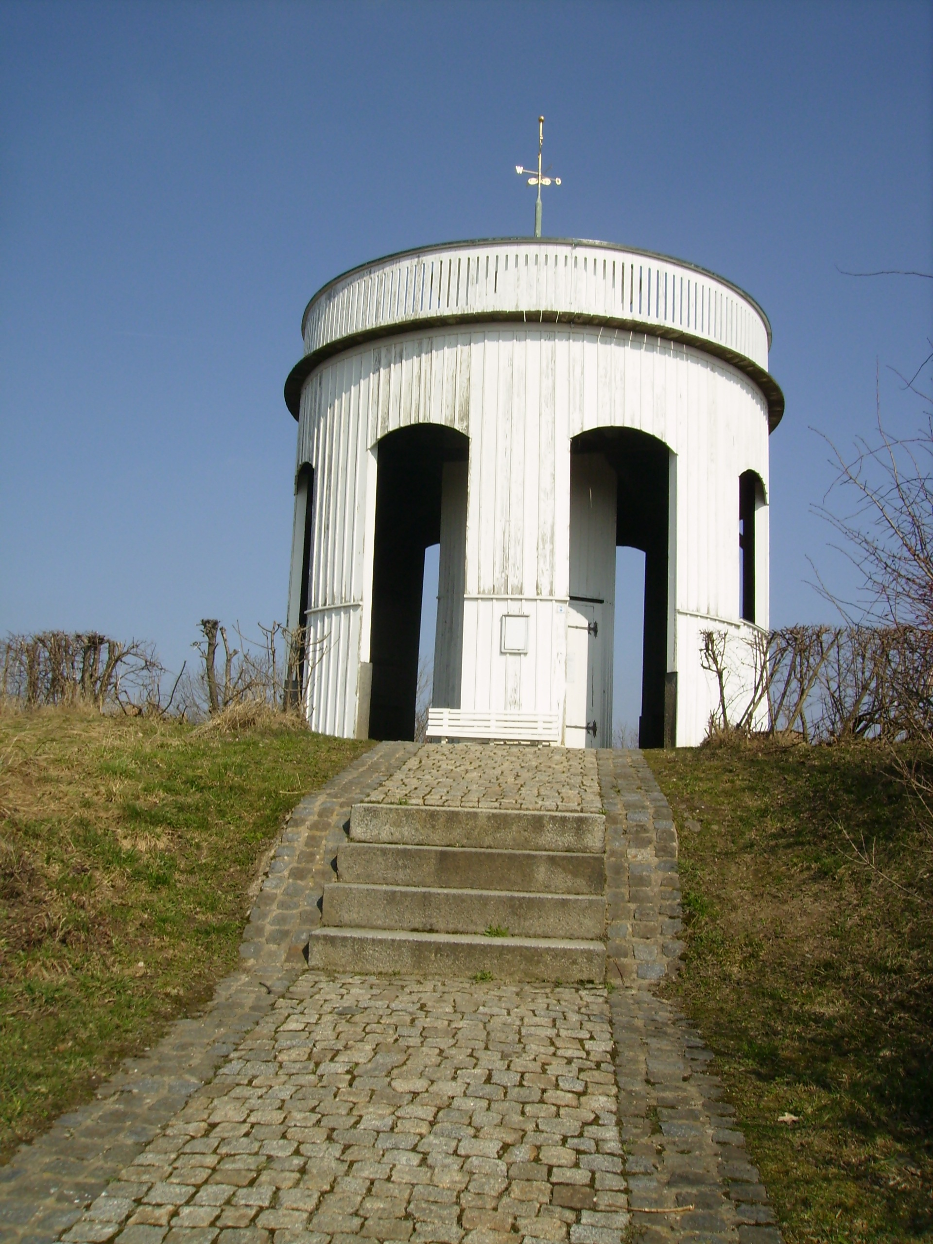 Altan (lookout tower) on the summit of the Hutberg above the Sachsen town of Herrnhut in Kreis Görlitz.